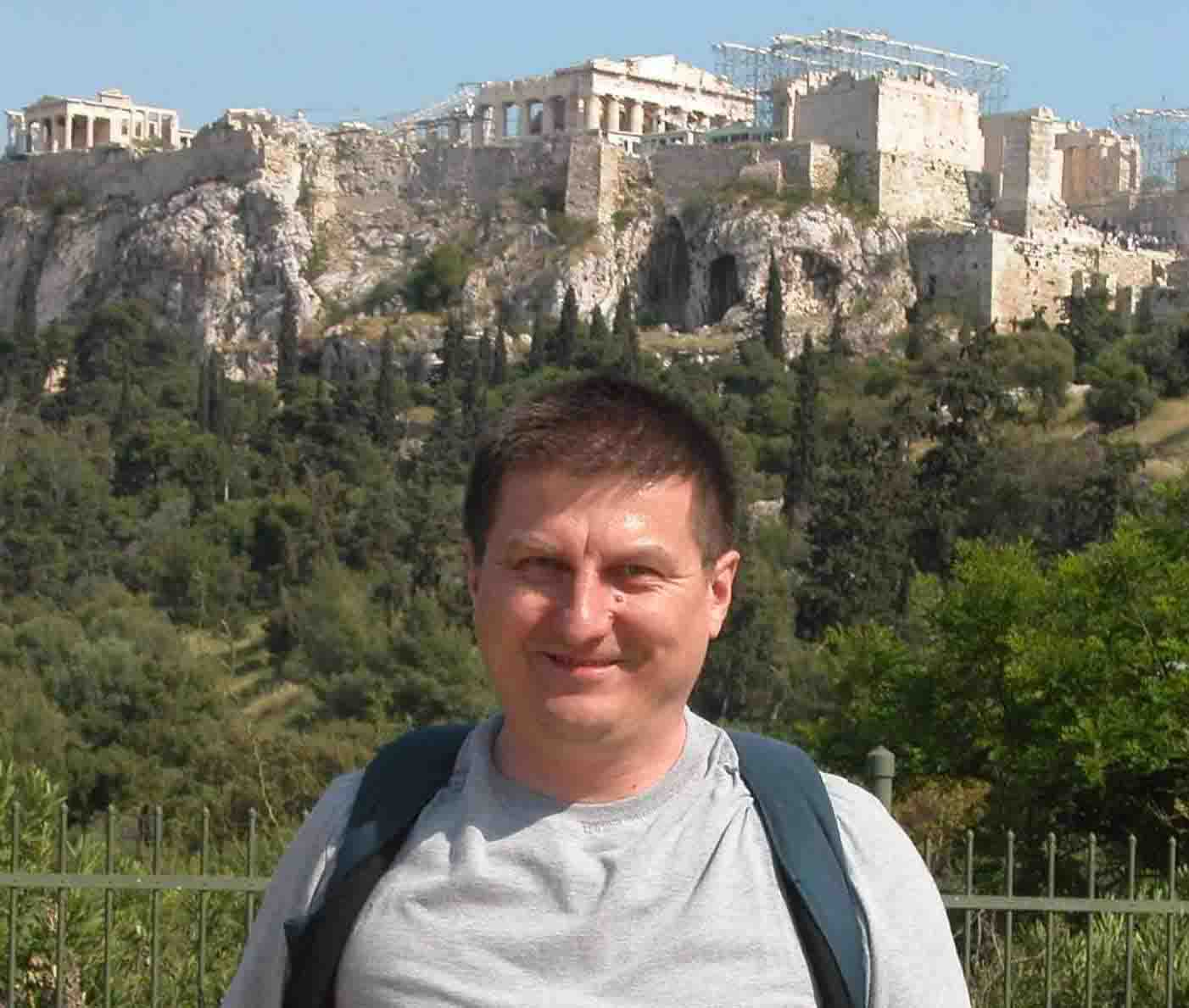 Greetings from Athens